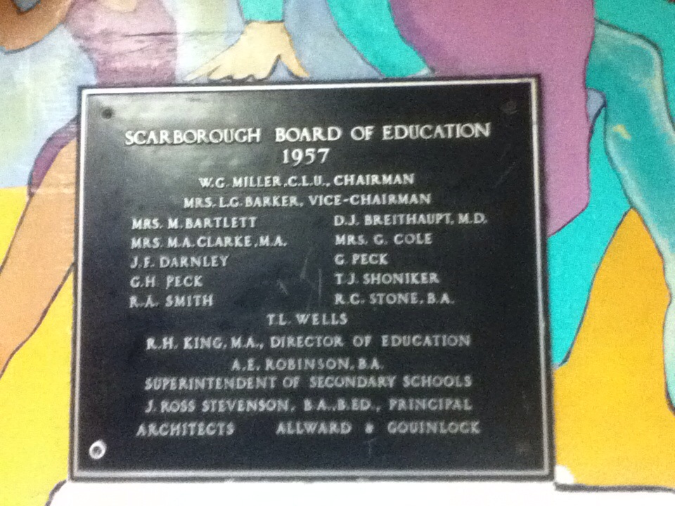 The plaque for the David and mary Thomson C.I. dated 1957 on the wall.